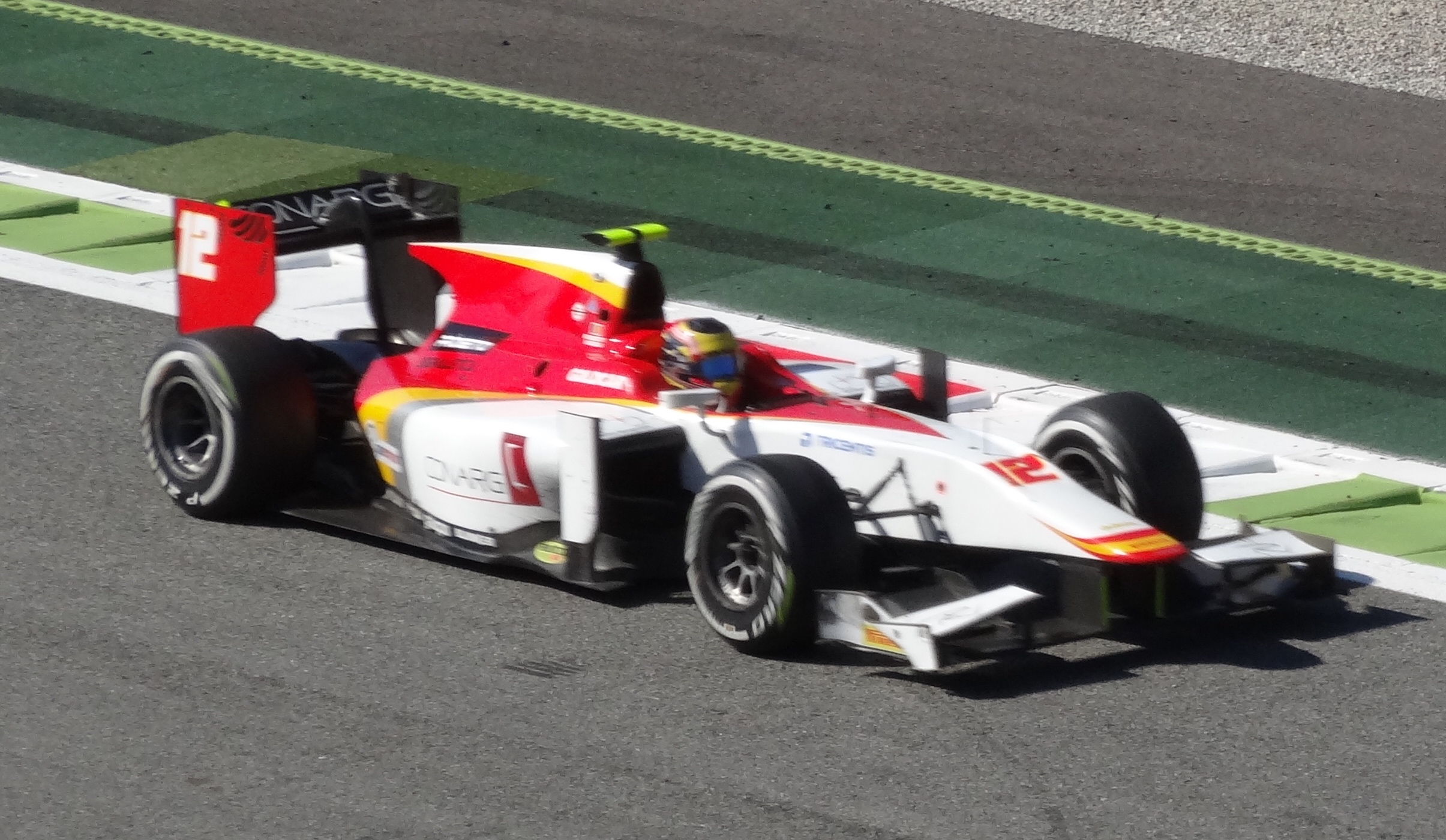 Robert Vișoiu Monza F2 2017